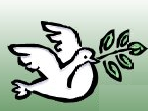 logo of the Society of Nontheist Friends